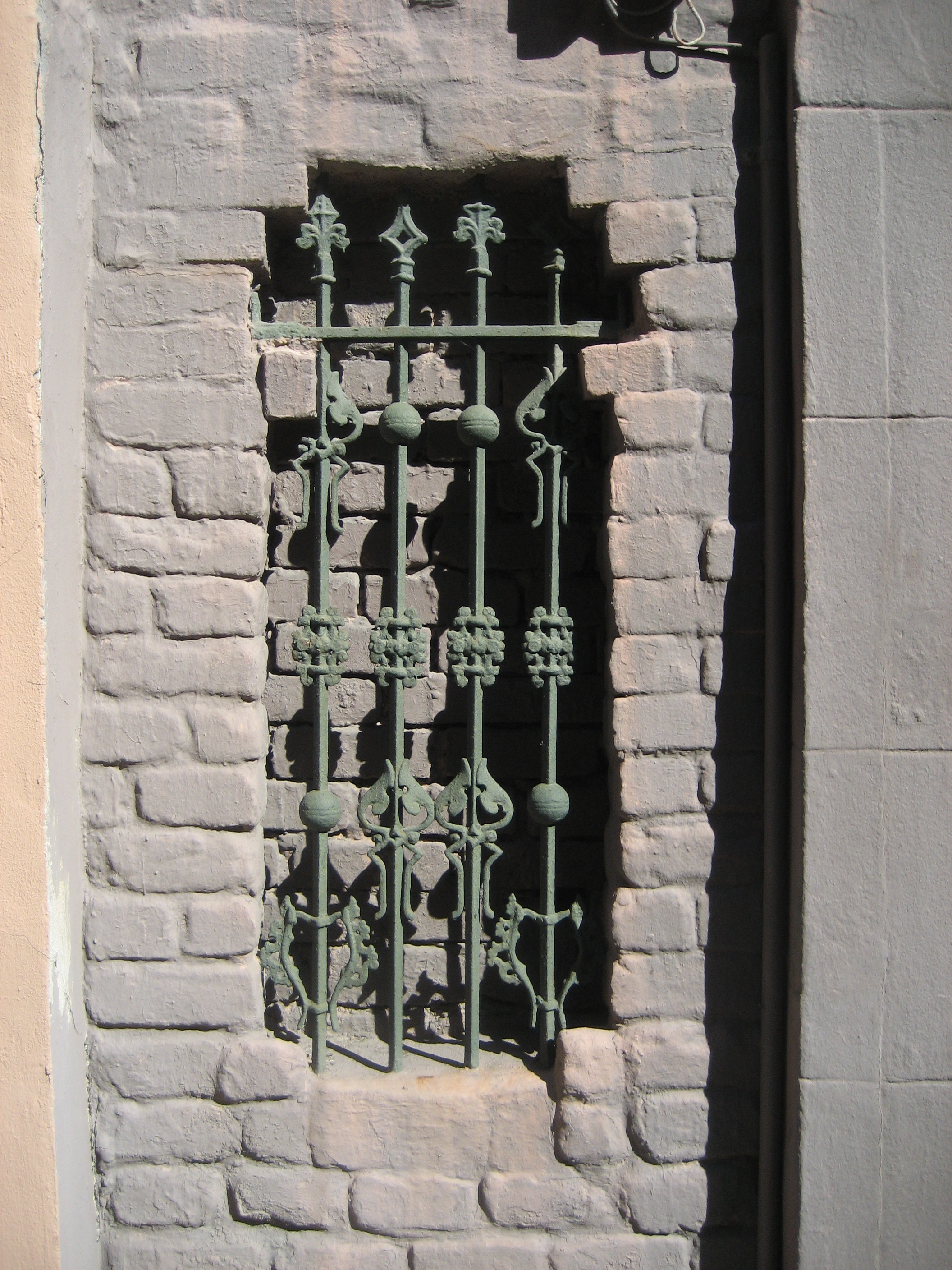 New Orleans: Grate in wall on Madison Street, French Quater. I presume at one time this opened on to a side yard or something similiar, but now it is bricked off from behind.